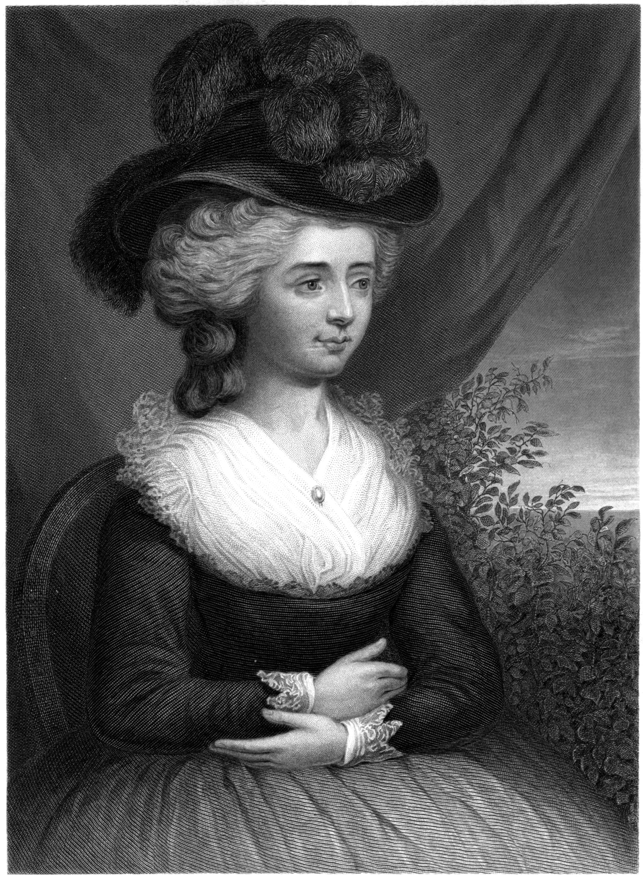 Portrait of Madame D’Arblay (Fanny Burney) engraved from a painting by Edward Francis Burney